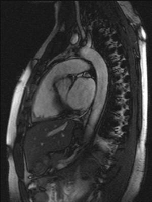 Sagittal MRI slice of my heart